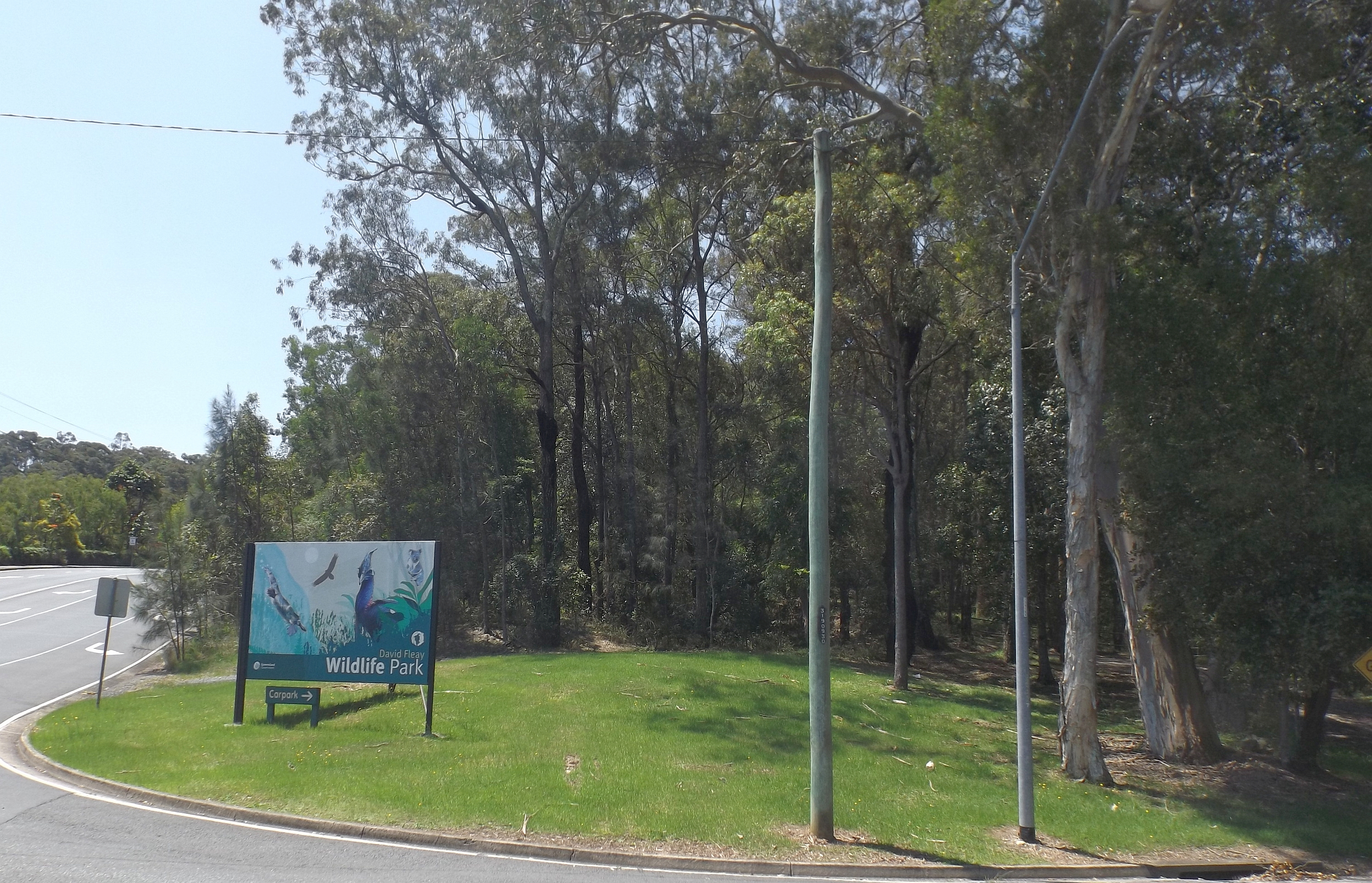 Photo of David Fleays Wildlife Park at Burleigh Heads, Gold Coast City, Queensland, Australia.